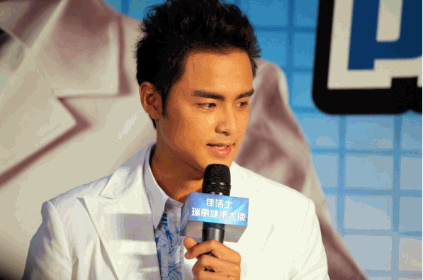 Ming Dao in Guangzhou Crest Health Master Activity, 2010.中文（台灣）: 2010年，明道出席廣州佳潔士健康達人活動。